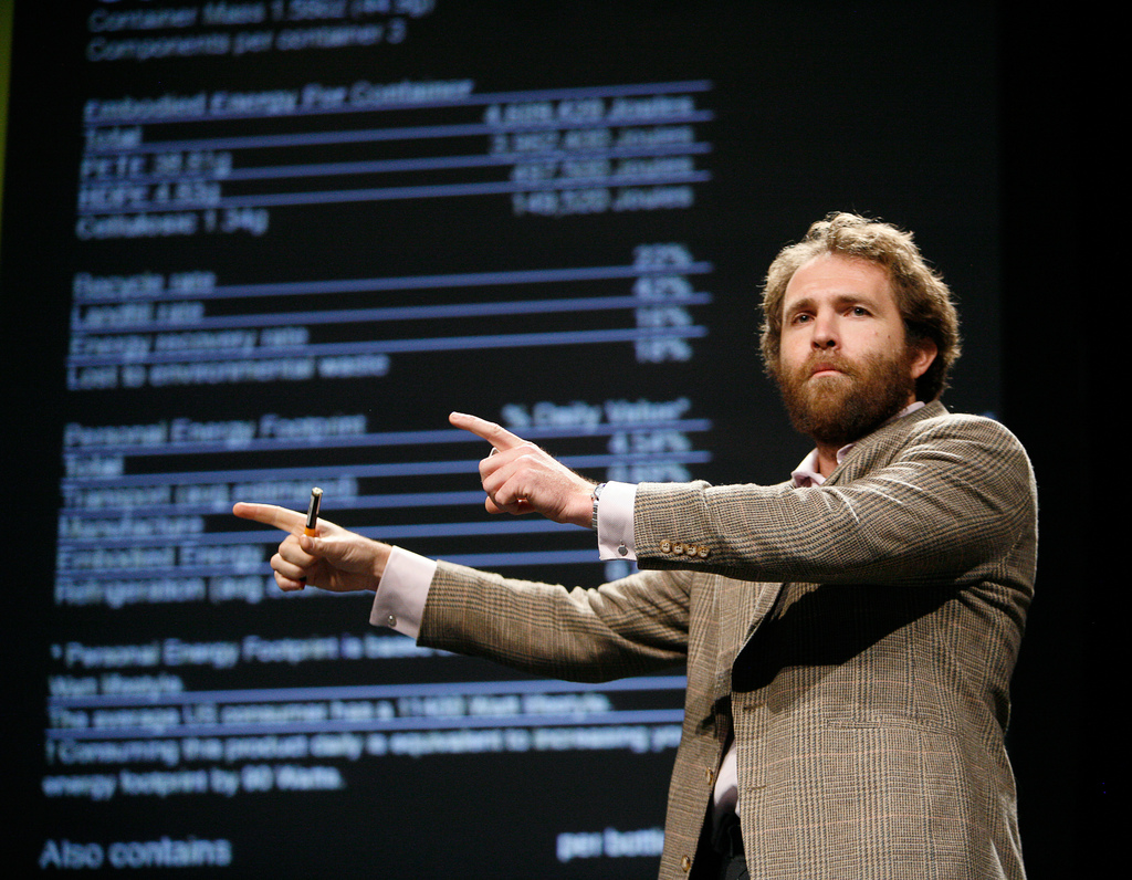 Saul Griffiths giving a talk at Pop!Tech 2008. Shot by Kris Krug